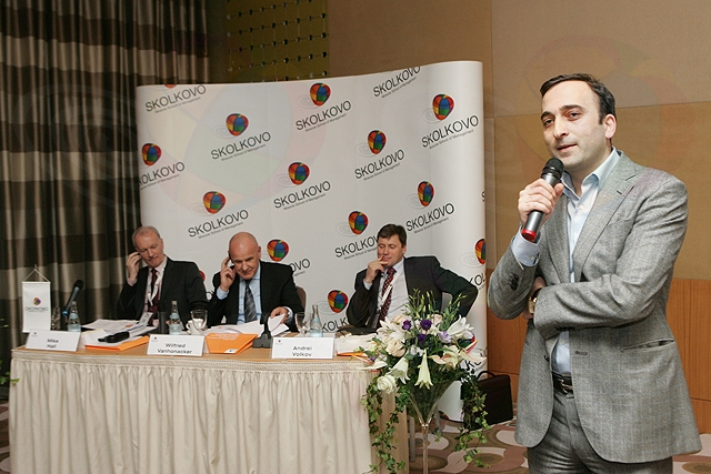 SKOLKOVO opens admission to first MBA class